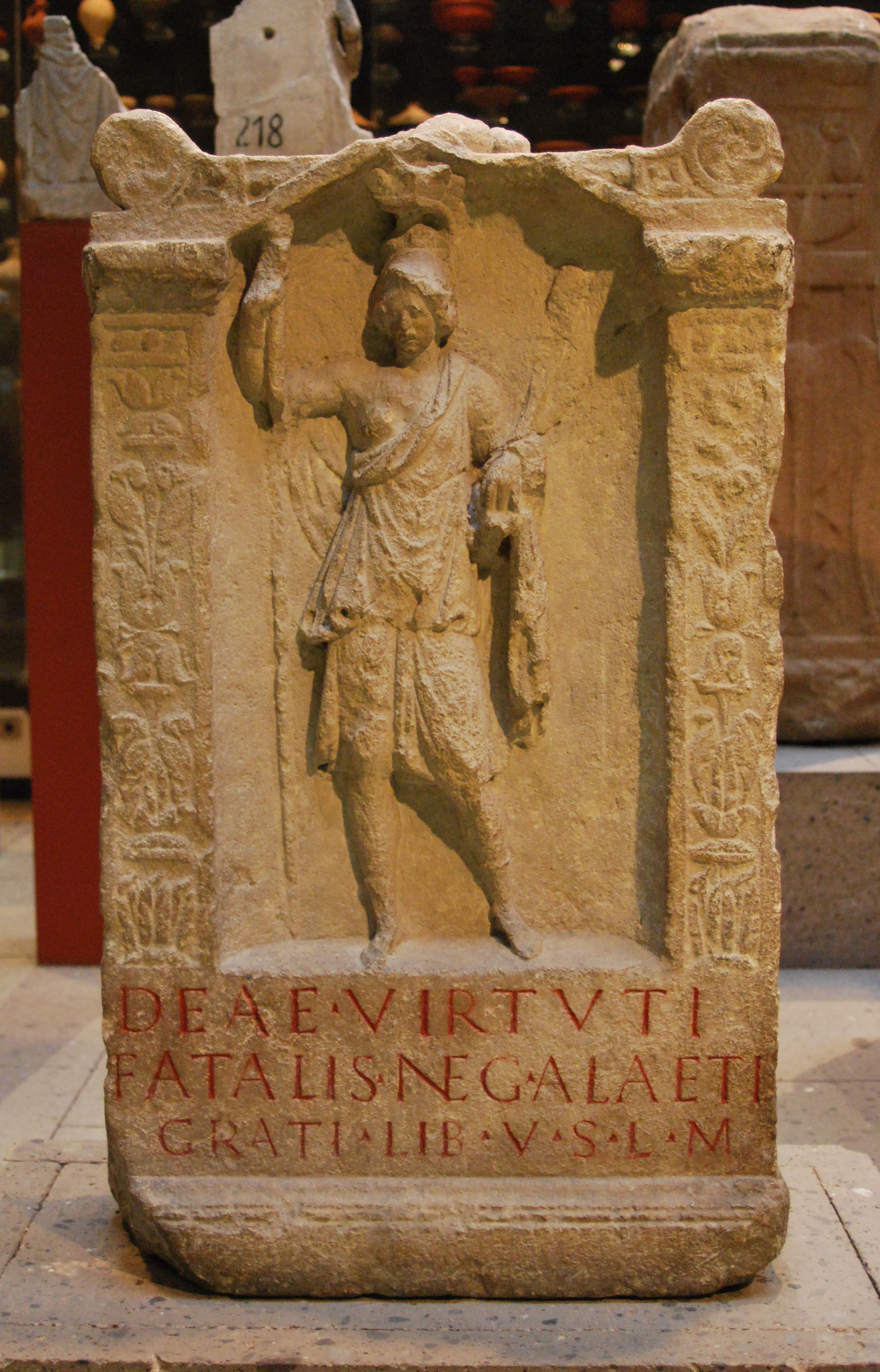 Sacrificial altar of the dea Virtus, 3rd cent. AD, Cologne